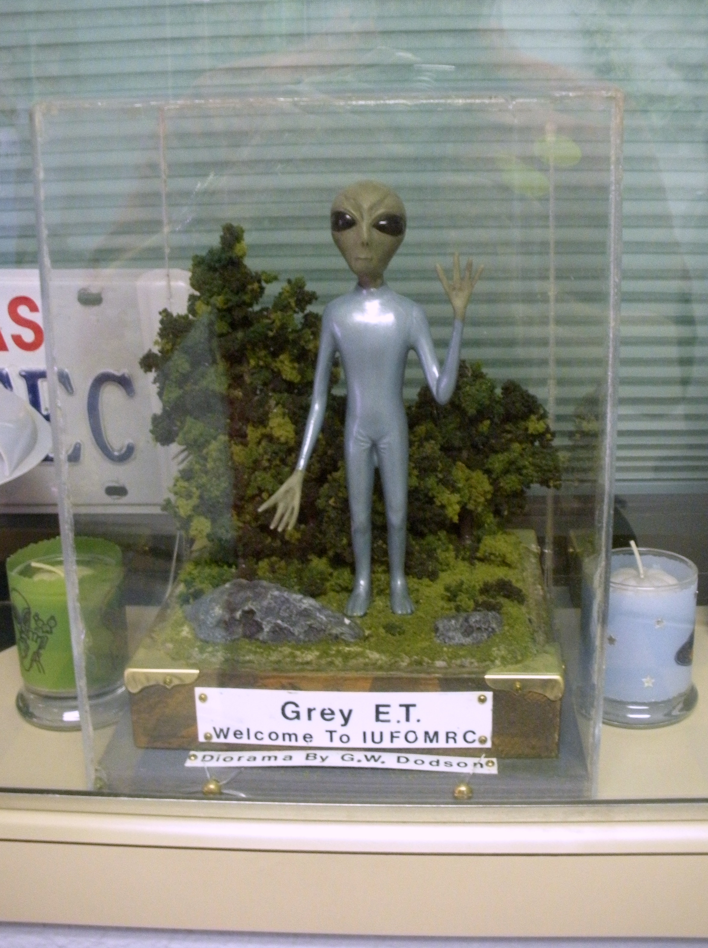 Diorama of a Grey extra-terrestrail by G. W. Dodson, Roswell UFO Museum, Roswell, New Mexico, USA.